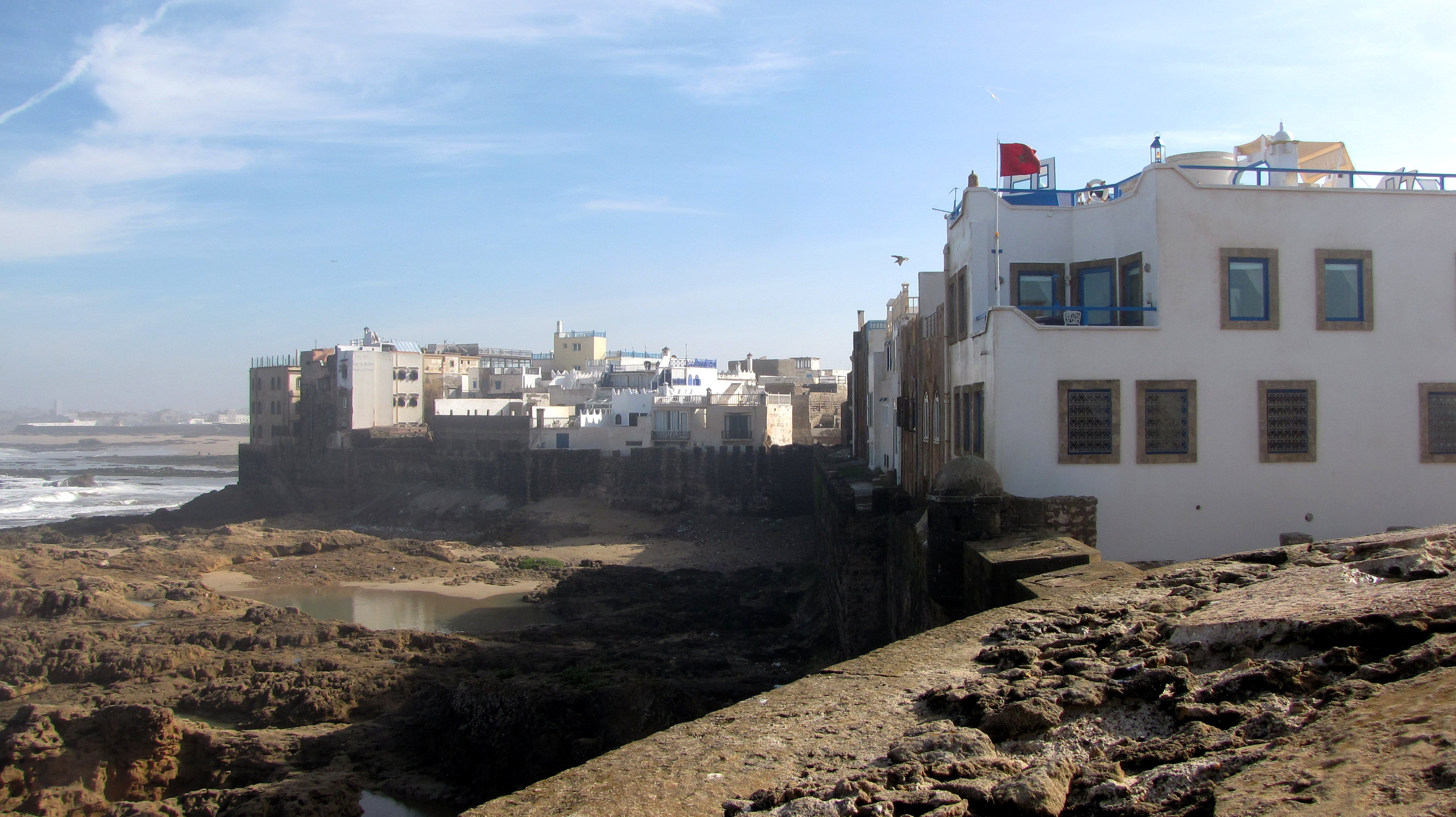 A view in Moroccan city of Essaouira in Essaouira province, Marrakech-Tensift-Al Haouz region.